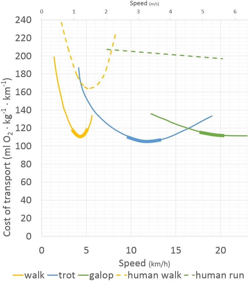 Cost of transport in ml O2 kg-1 km-1 for a horse and a human per gait. Thicker line is for the preferred speeds per gait David R. Carrier (1984): 'The Energetic Paradox of Human Running and Hominid Evolution' in Current Anthropology, Volume 25, No. 4, p. 483-495